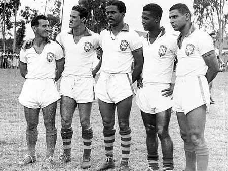 Cláudio, Ademir de Menezes, Baltazar, Didí, Francisco Rodrígues